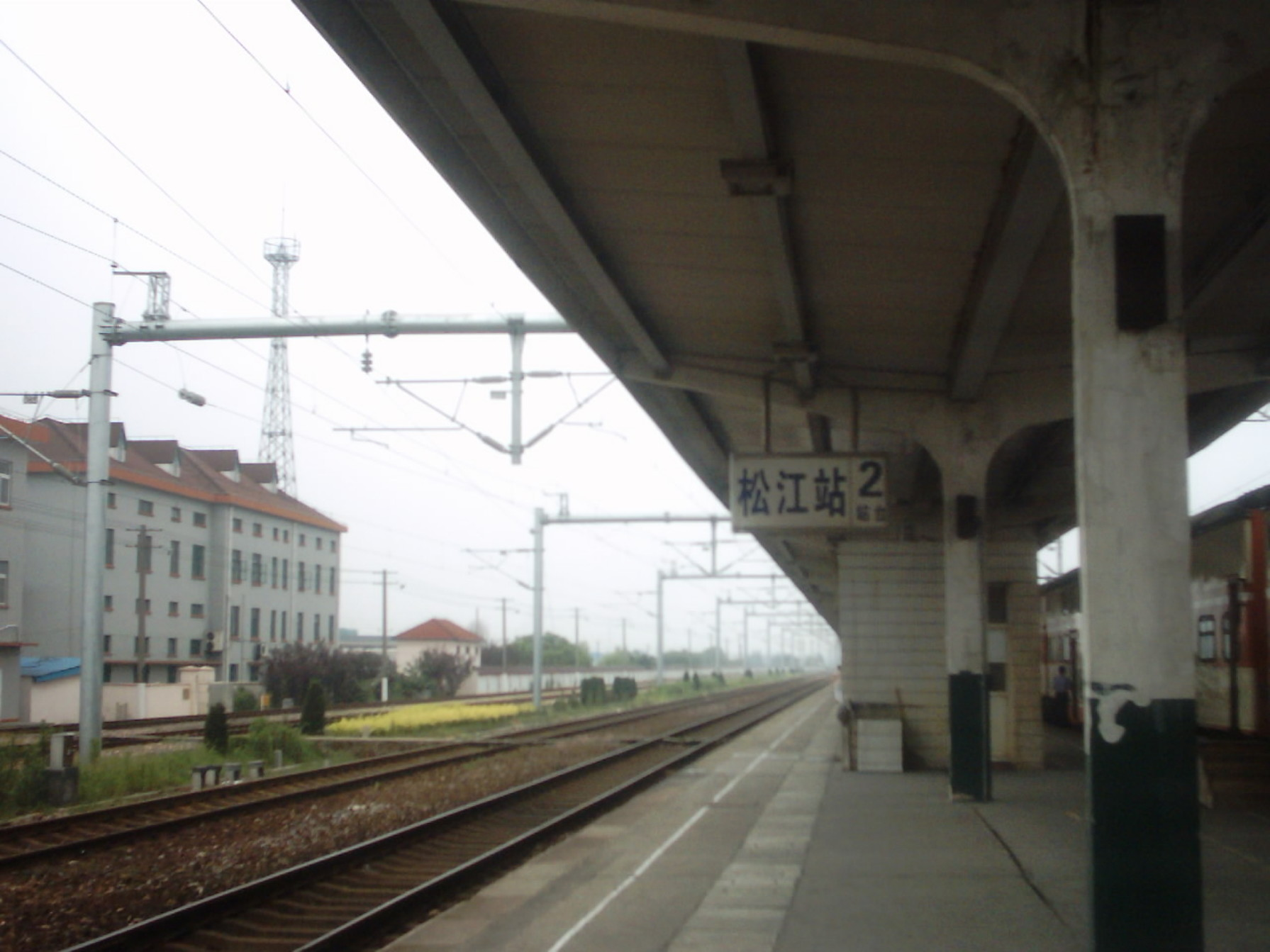 Songjiang Railway Station